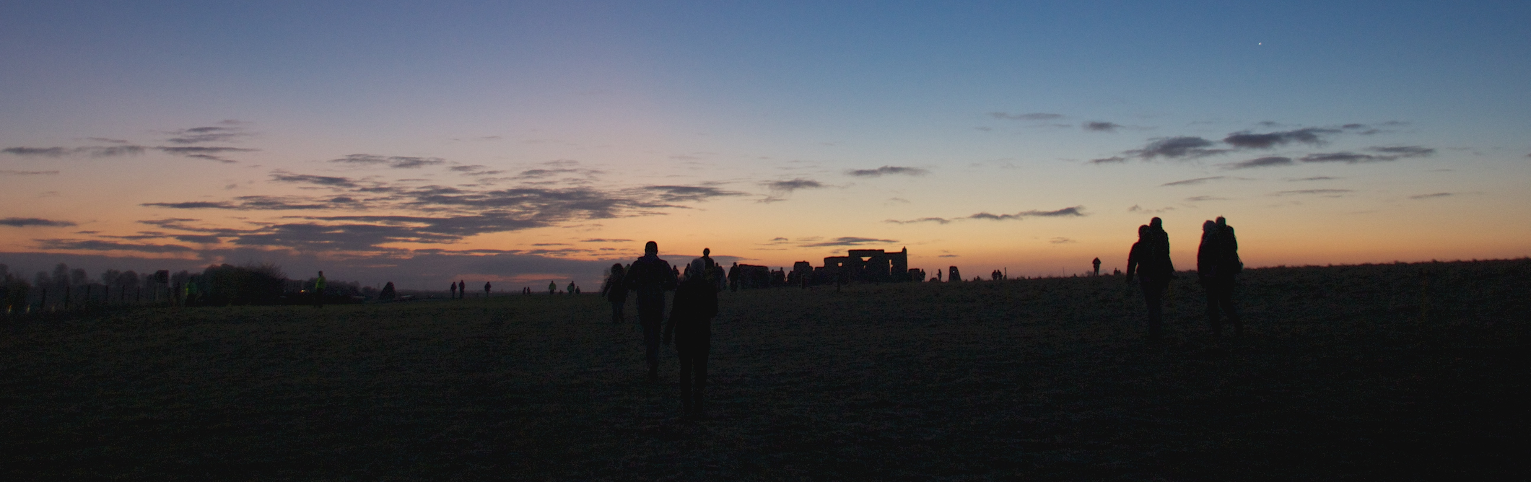 Dawn near stonehenge